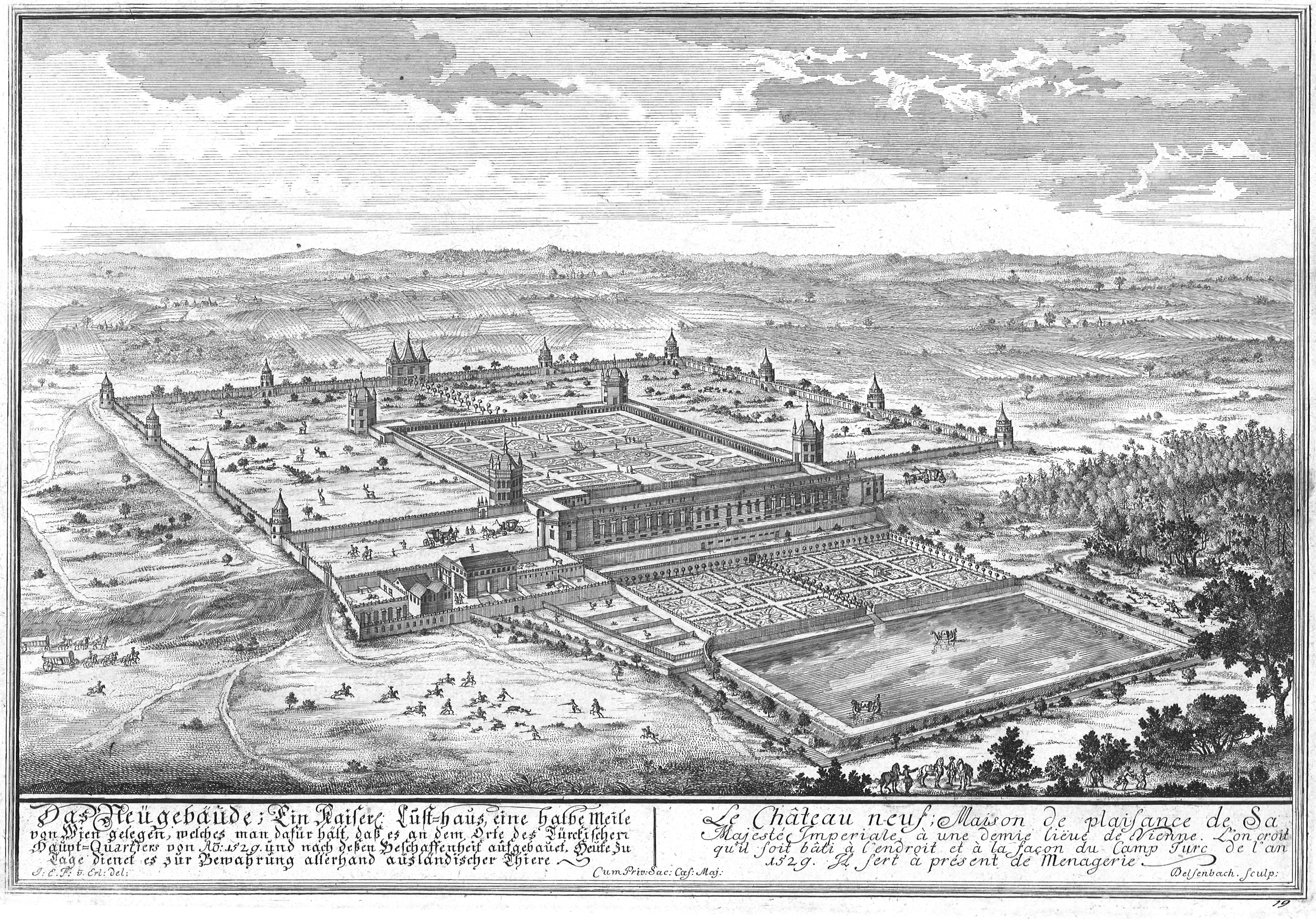 View of Neugebäude Palace near Vienna.